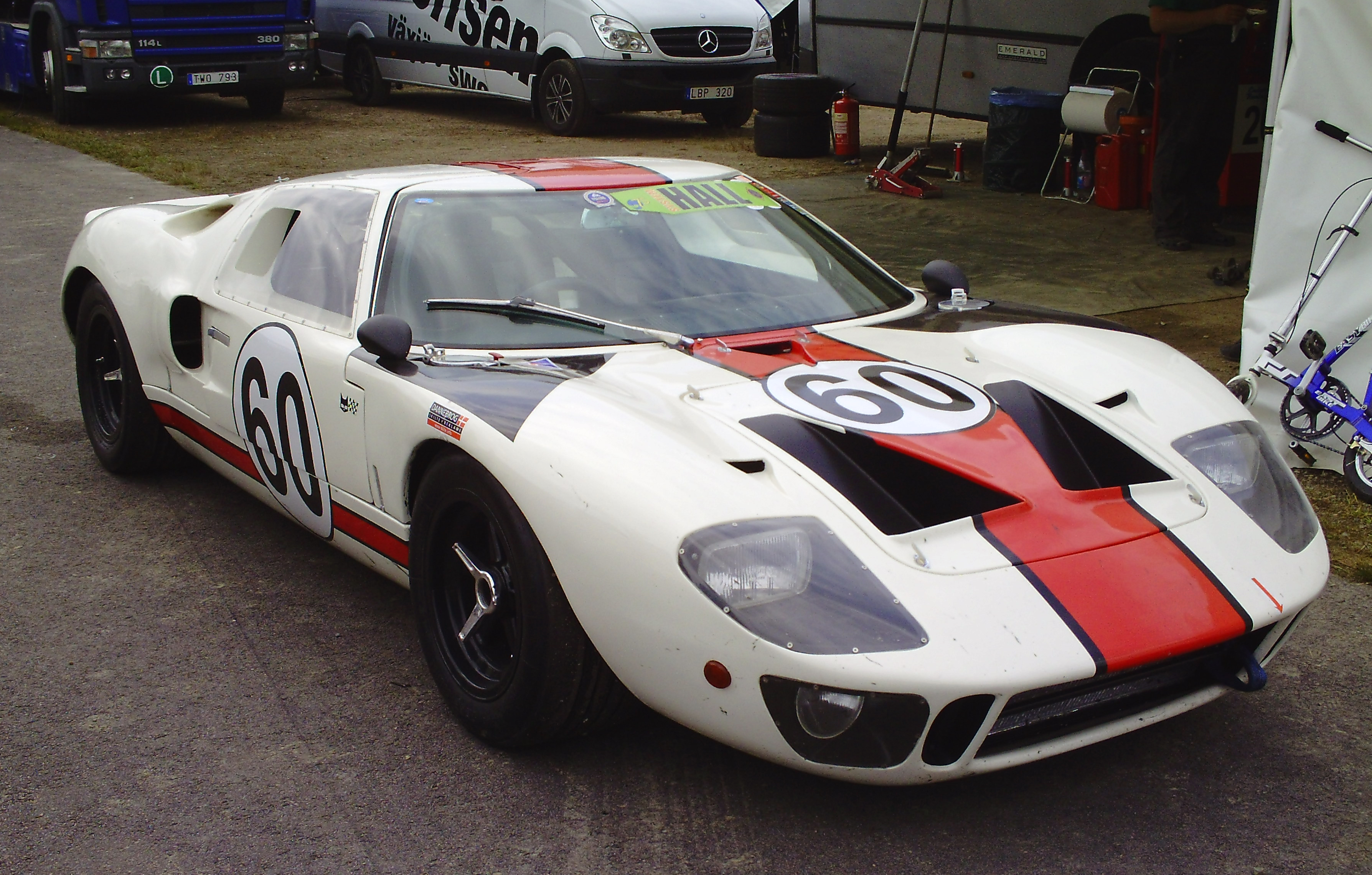 To celebrate Svenska Bilsportförbundet's 75 anniversary, a historic race was held at Falkenbergs Motorbana. Here is a Ford GT40 driven by Kenneth Persson.